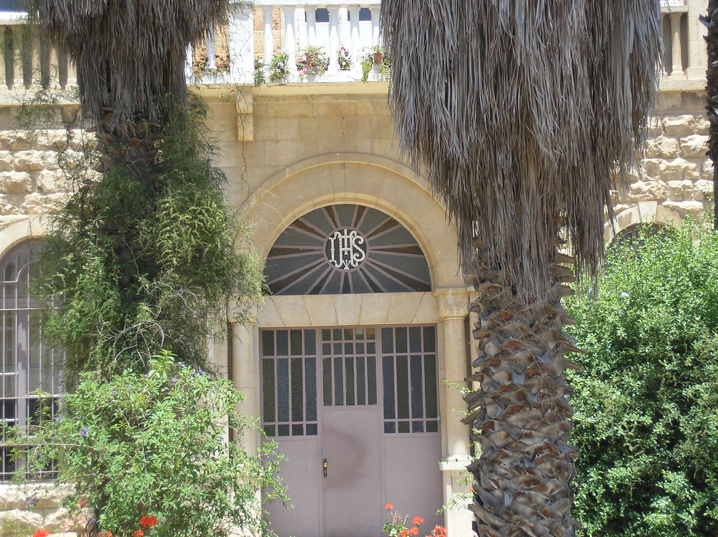 The Papal Bible Institute - detail